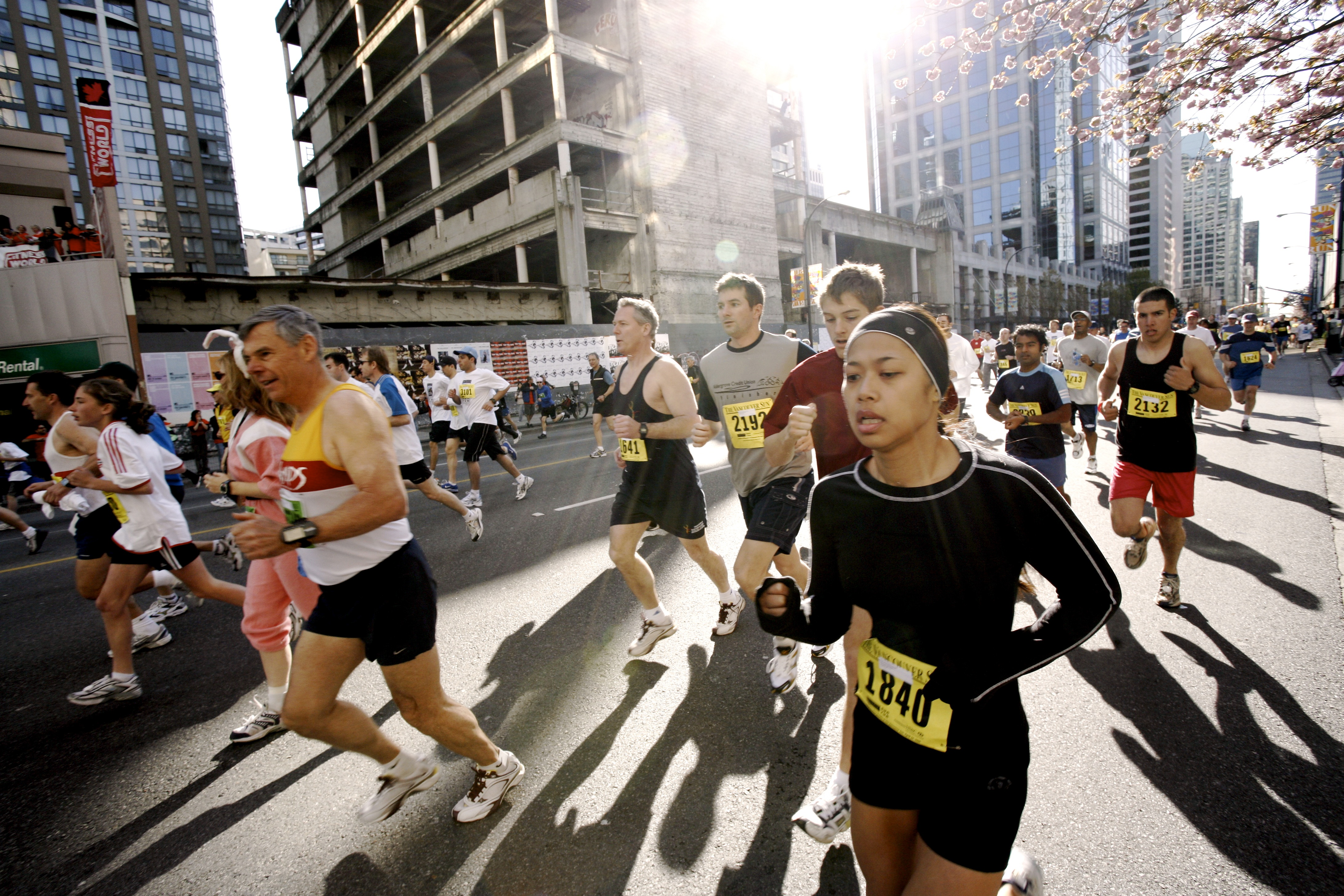 Sun runners in 2006. Photographed by Kris Krug